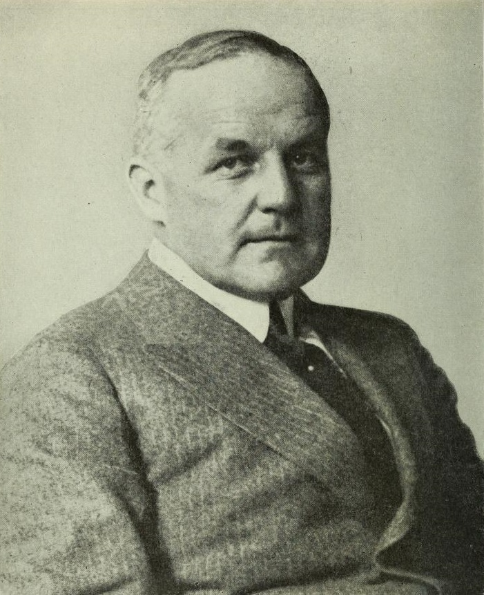 Picture of Vance C. McCormick